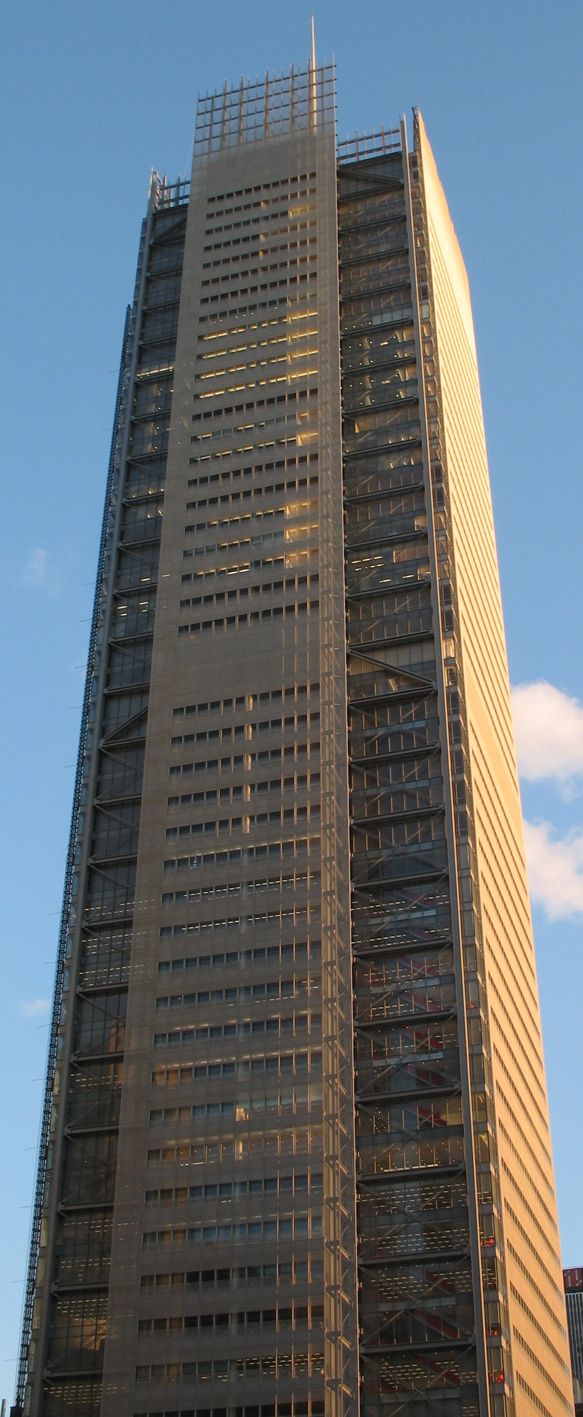 New York Times Tower in July 2007. Photo by poster.